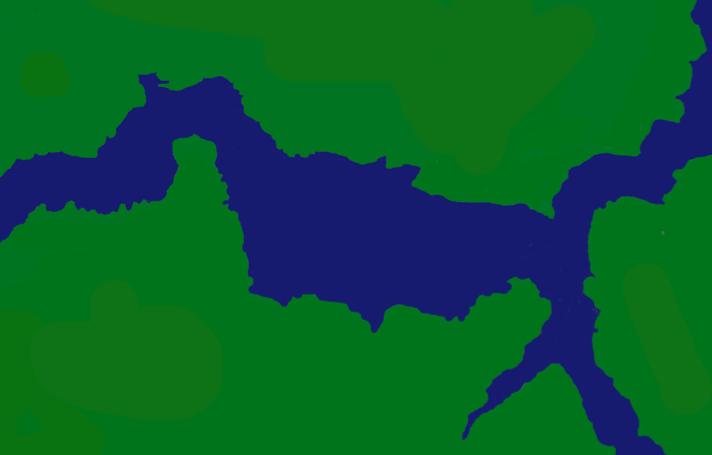 Tangjiashan Lake (map as no free photo taken yet. Image drawn entirely by me WIkinews)